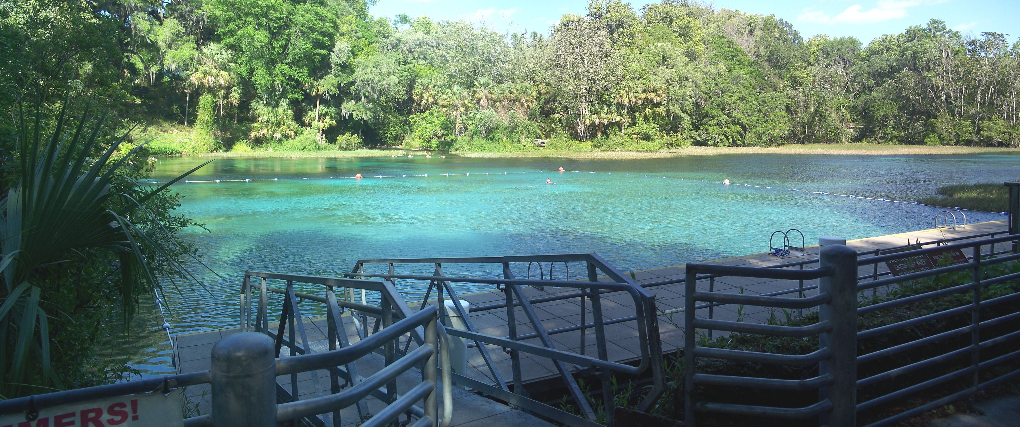 Rainbow Springs State Park: Swimming area